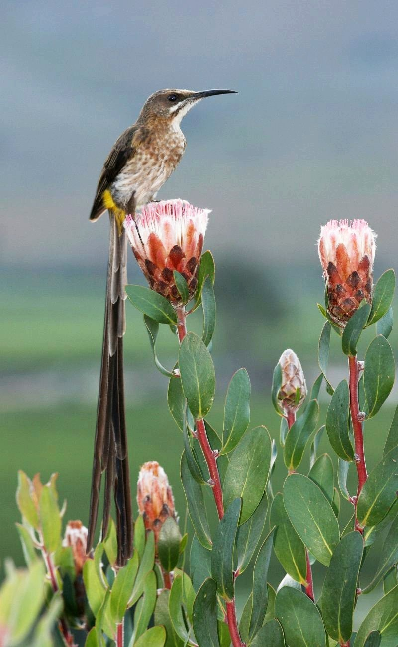 Cape Sugarbird (Promerops cafer) Location: Slanghoek Mountain Resort, Western Cape, South Africa.